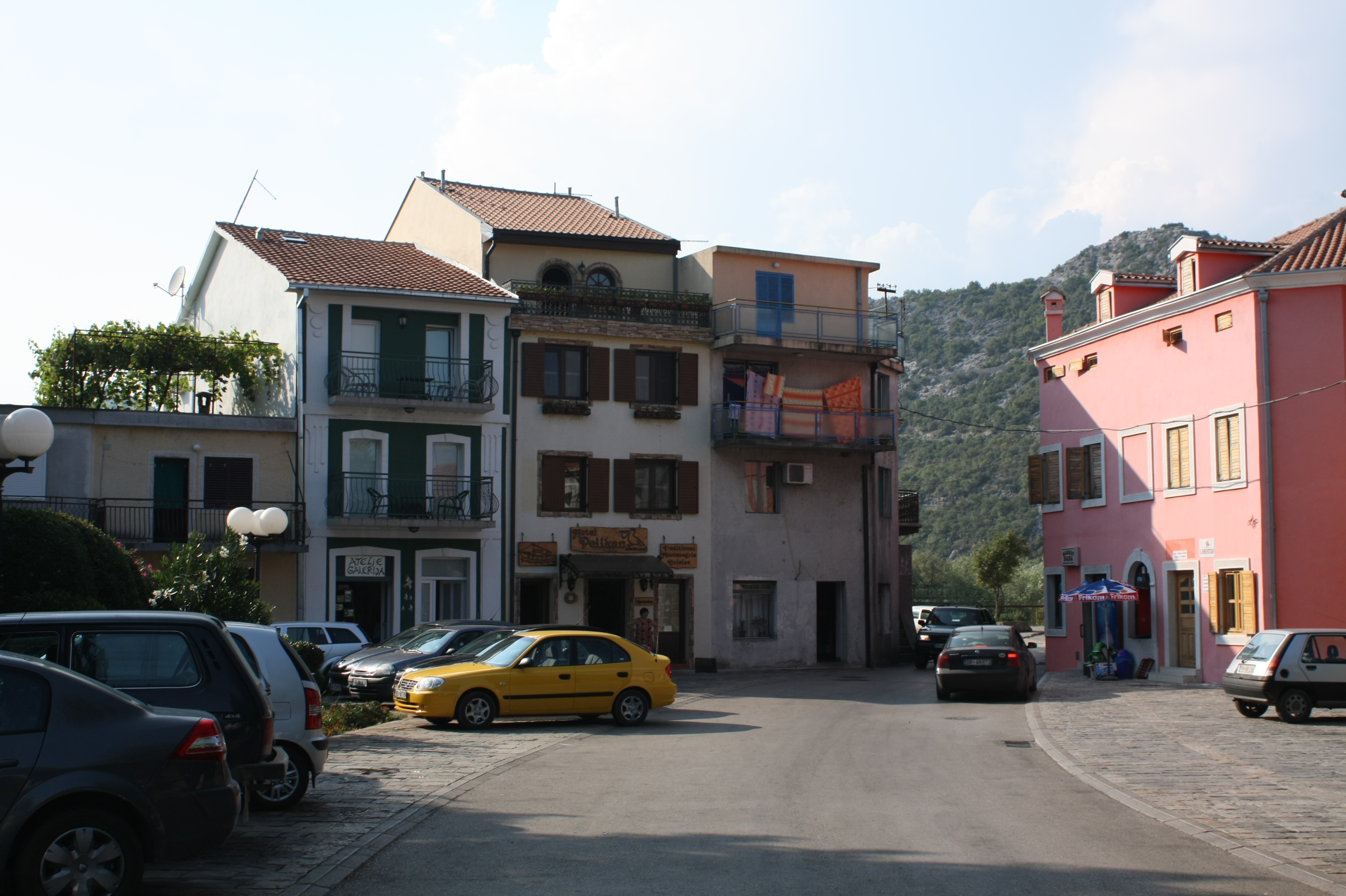 Virpazar, Montenegro - village centre